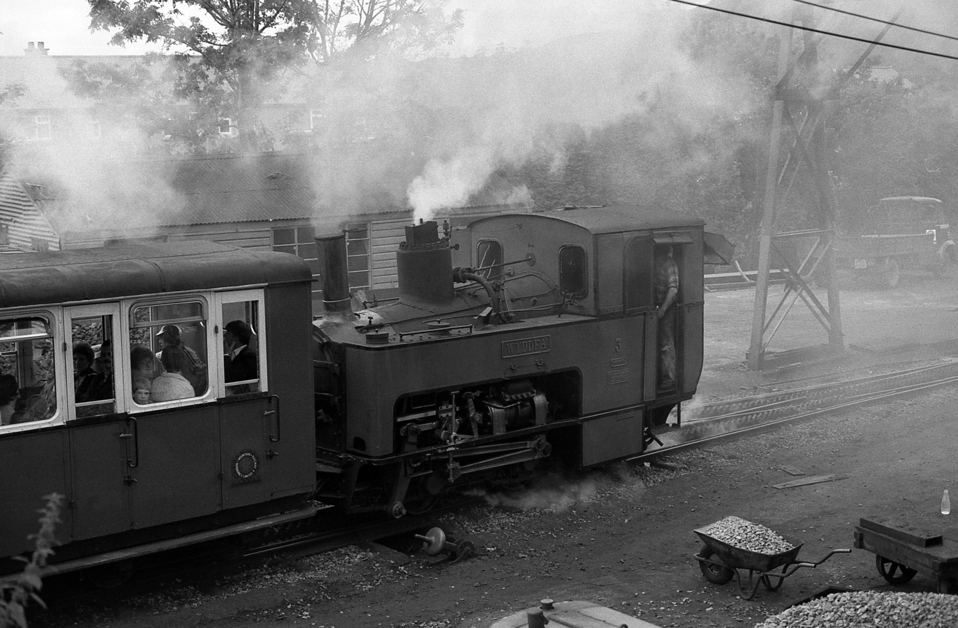 Snowdon Mountain Railway engine No. 3 Wyddfa Starts its train away on another climb up Snowdon, in the 1970s. Camera: Olympus OM1 35mm SLR. Film: Kodak Pancromatic X.